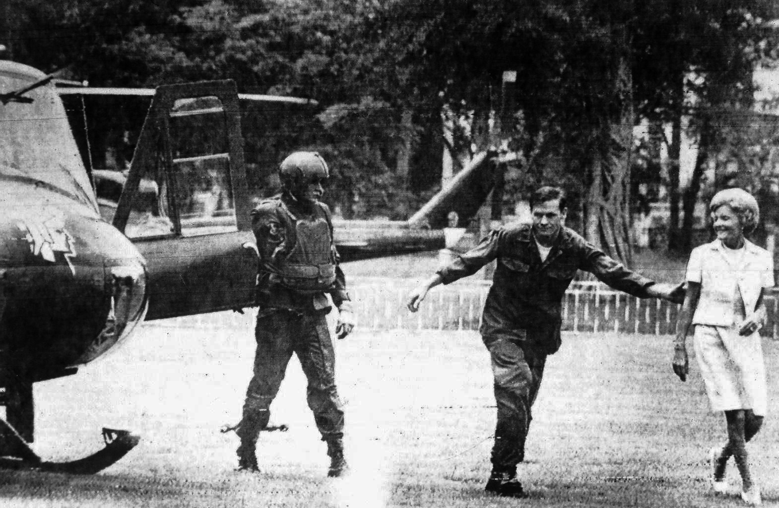 First Lady Pat Nixon lands at the presidential palace in Saigon on July 31, 1969, protected by armed guards and escorted by her pilot, Col. Gene Boyer, who pulled her away from the tail rotor.